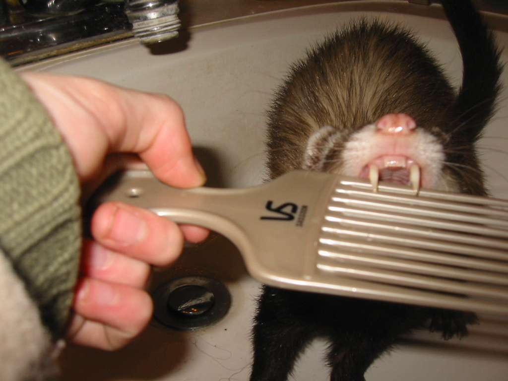 Photo of Ferret